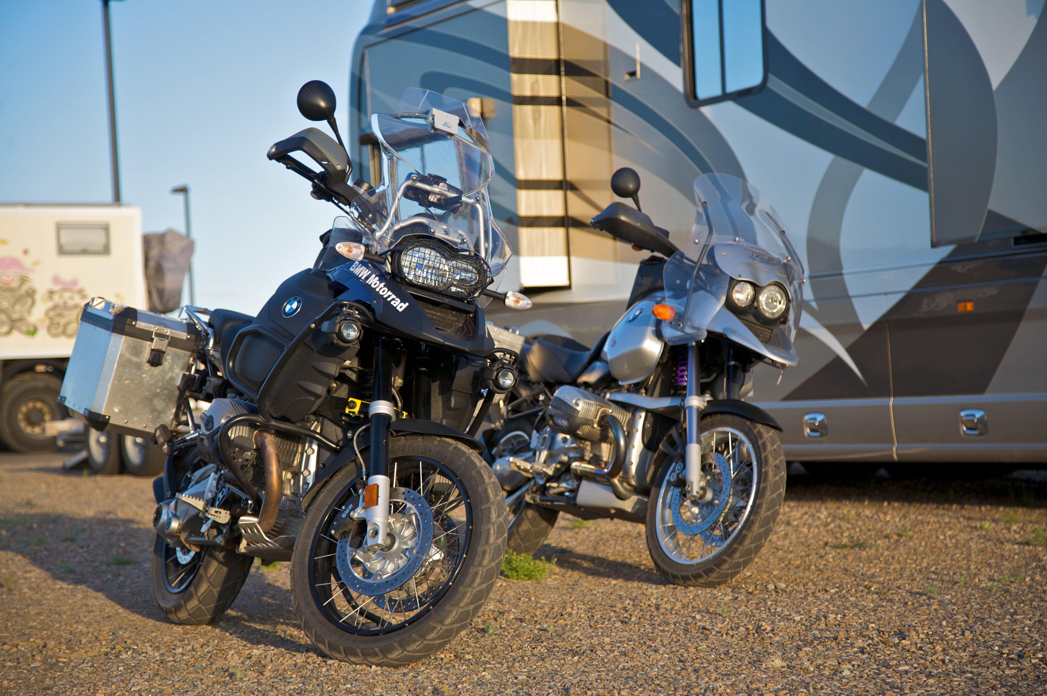 A couple of BMW R1200GS and R1150GS bikes waiting for a ride